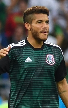 Mexico and South Korea match at the FIFA World Cup 2018-06-23